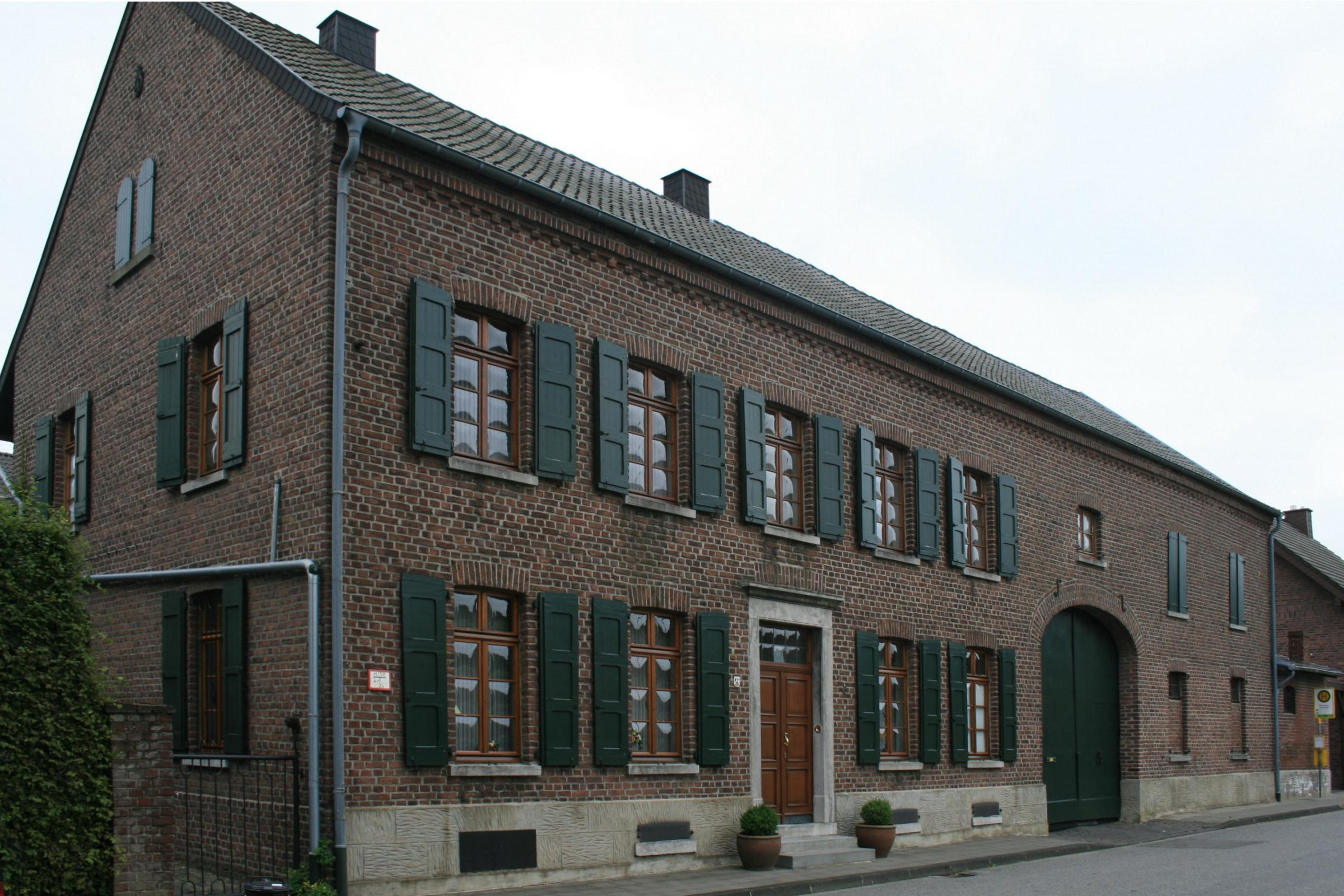 Cultural heritage monument No. B 030 in Mönchengladbach